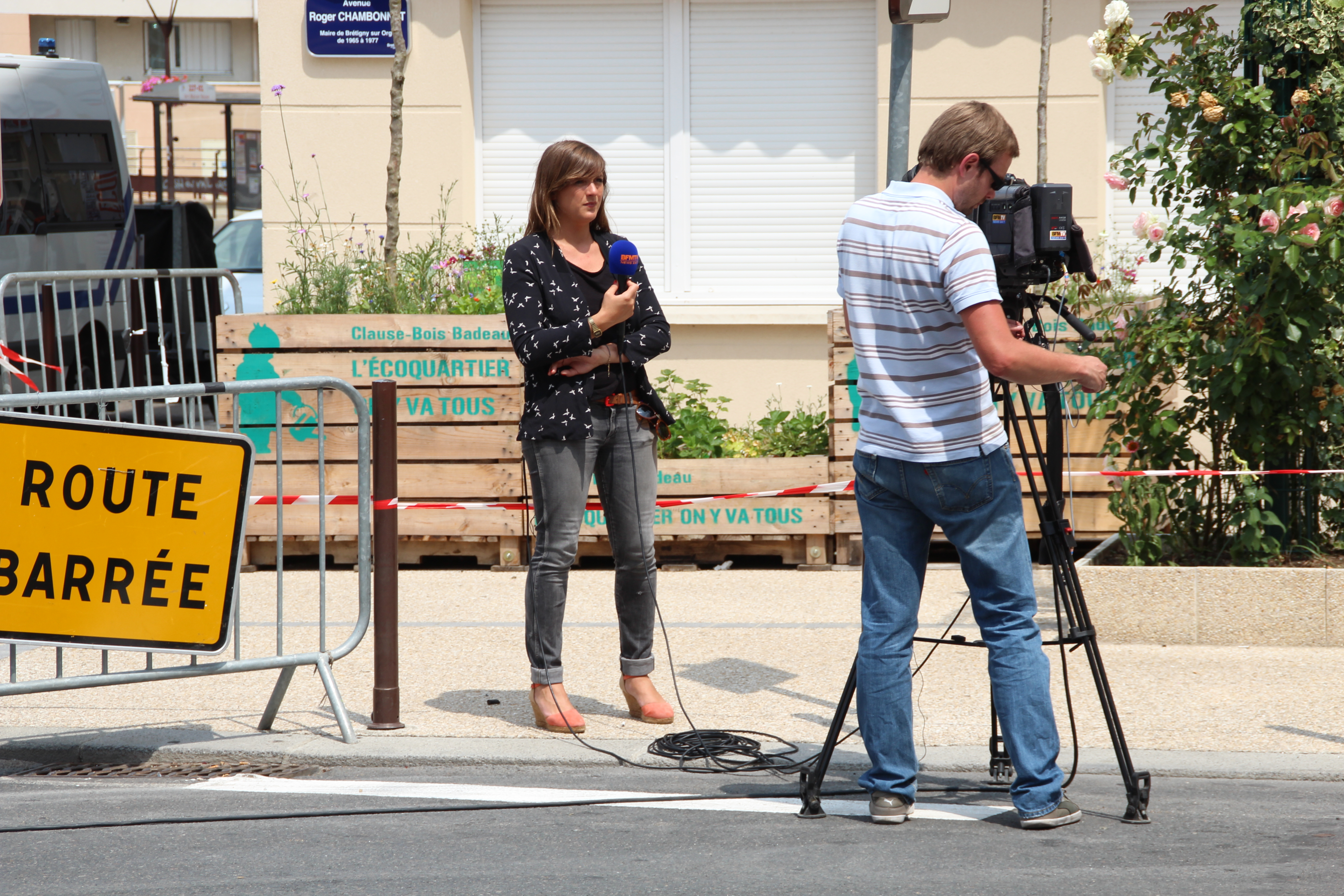 Aftermath of the train crash at the train station of Brétigny-sur-Orge, France.